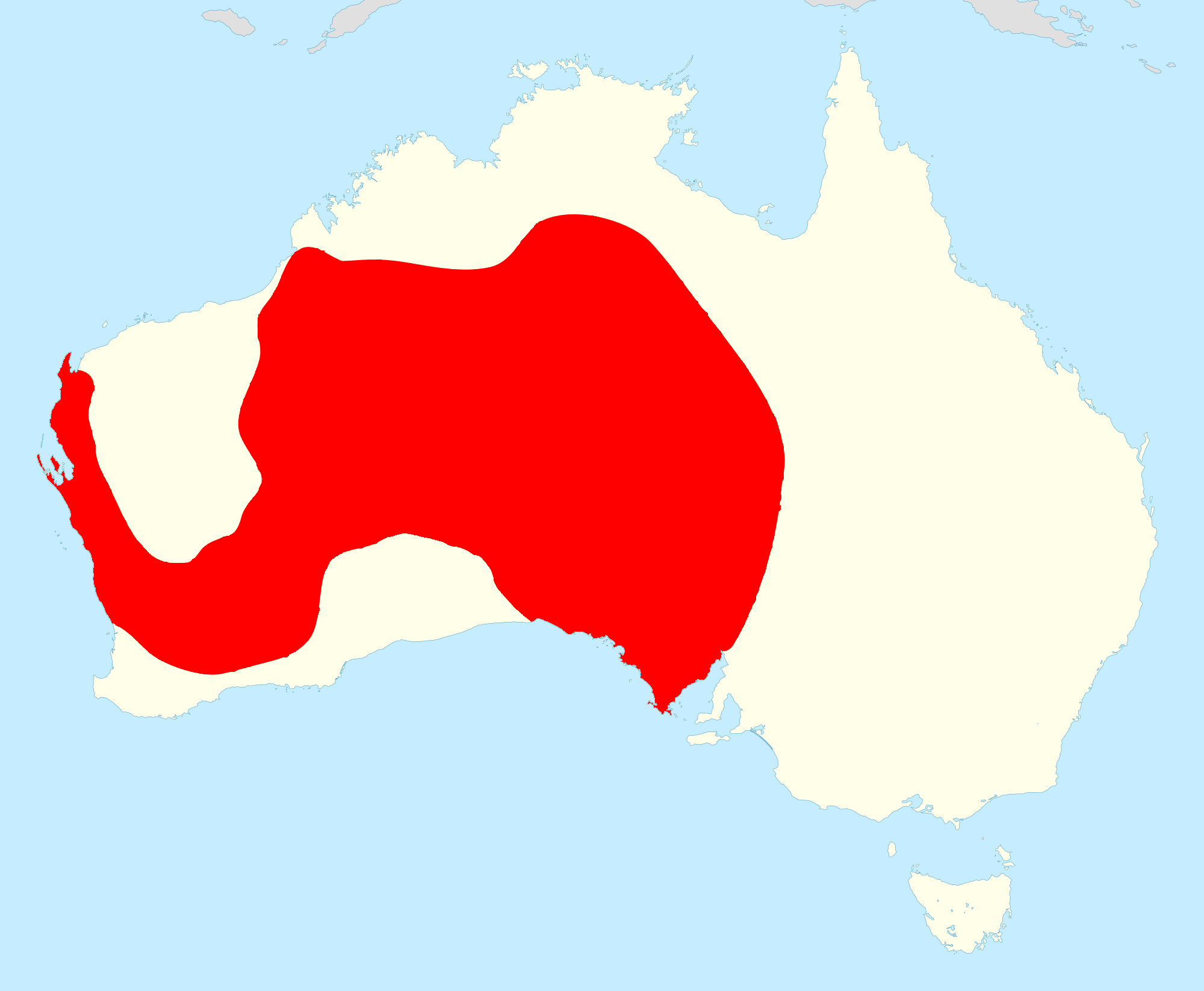 Distribution of Moloch horridus according to Wilson & Swan (2010): A complete guide to reptiles of Australia